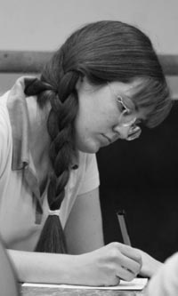 Russian dramatists and playwrights Ksenya Stepanycheva